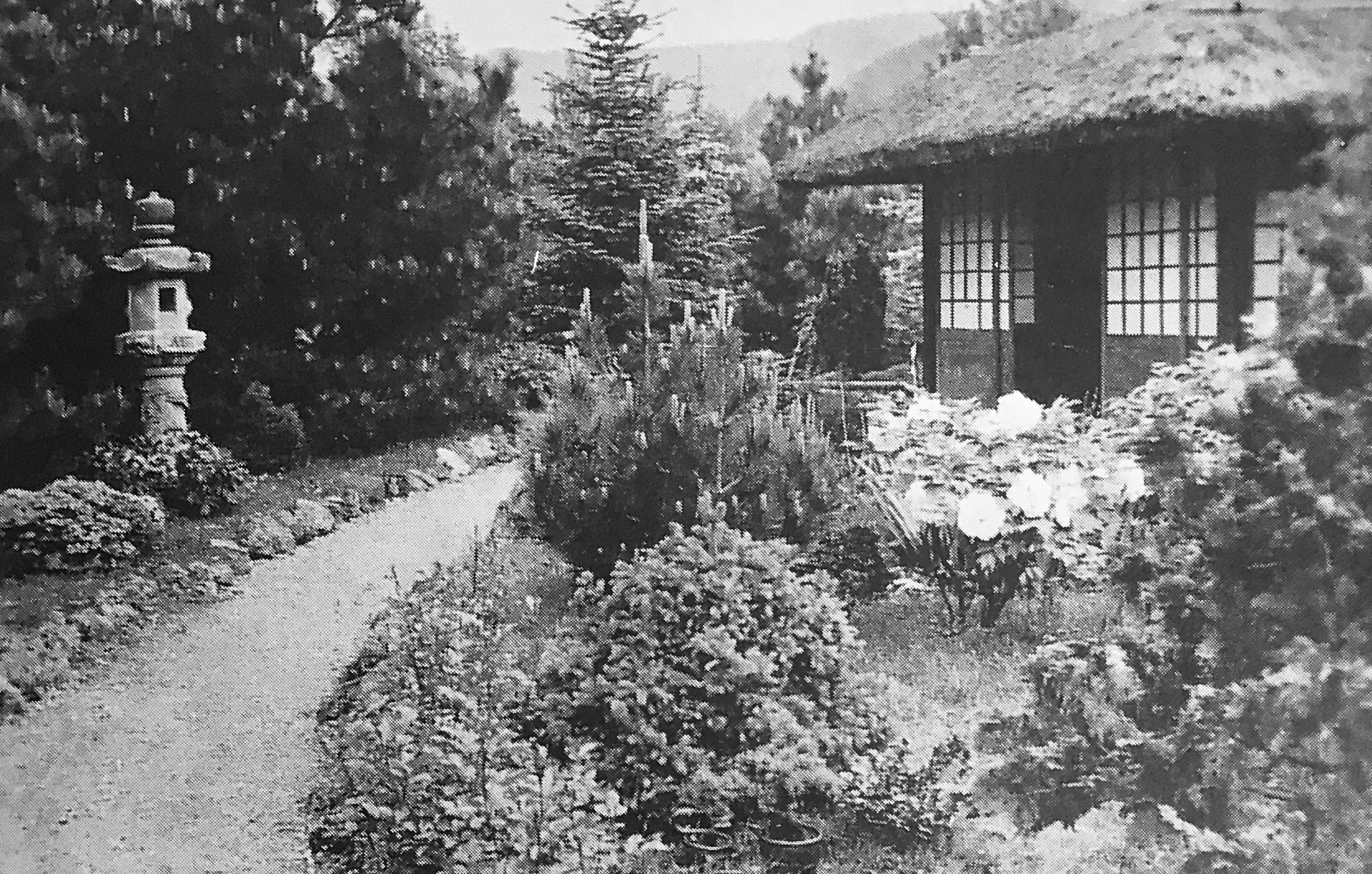 Weinbrenners japanisches Teehaus in seinem Garten